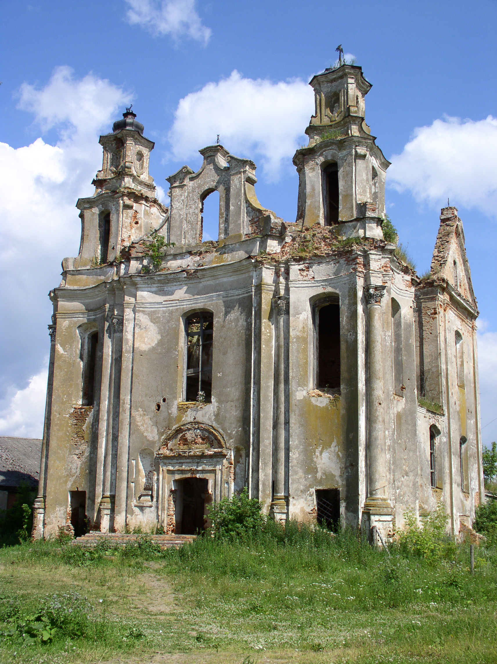 Church of Saint Virgin Mary, Smalyany, Belarus.